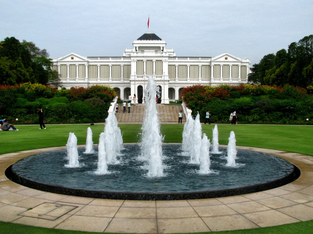 A view of the Istana, the official residence of the President of Singapore, and a fountain in its grounds.